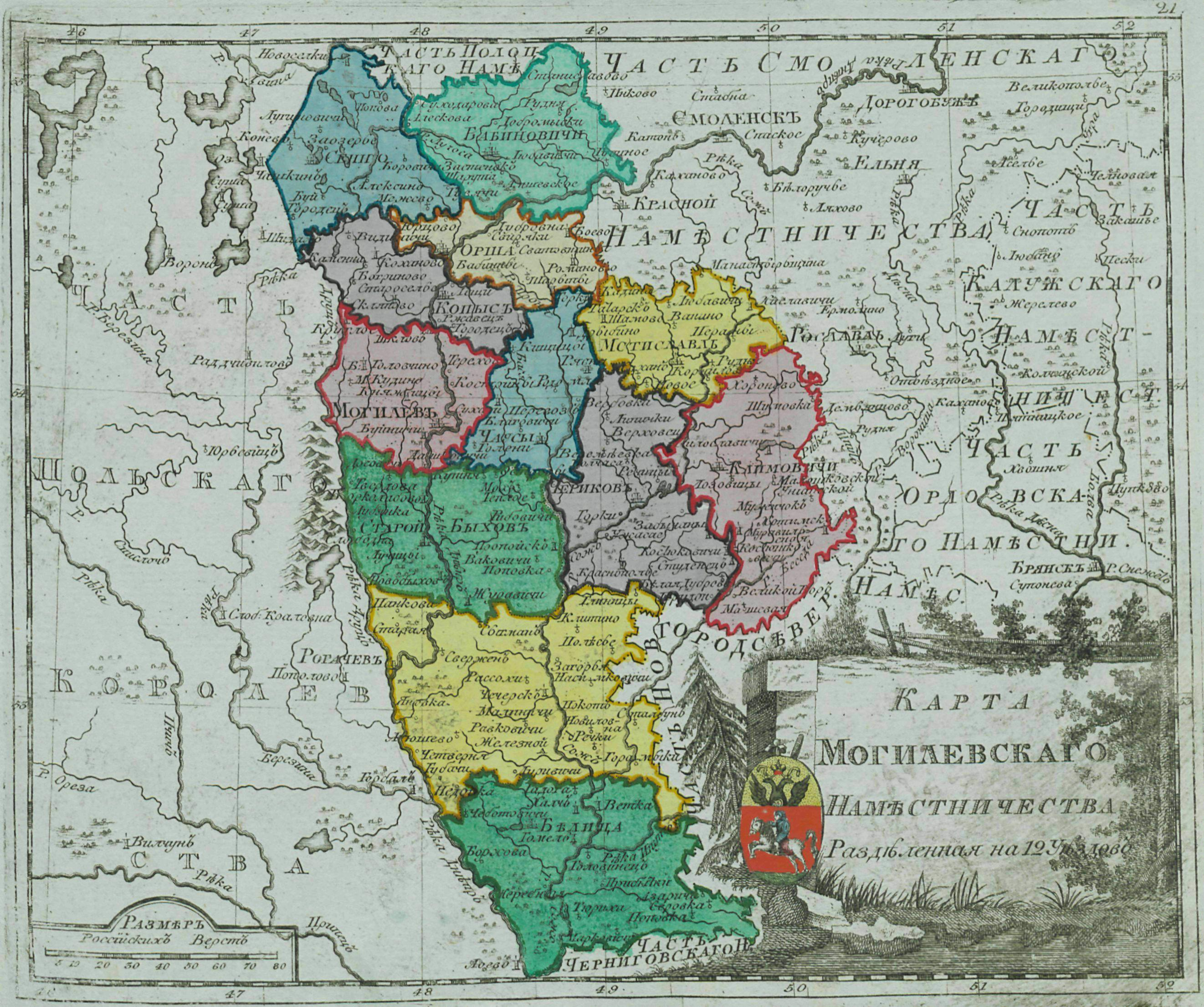 Small atlas of the Russian Empire (1792). Map of Mogilev Namestnichestvo (map 20).